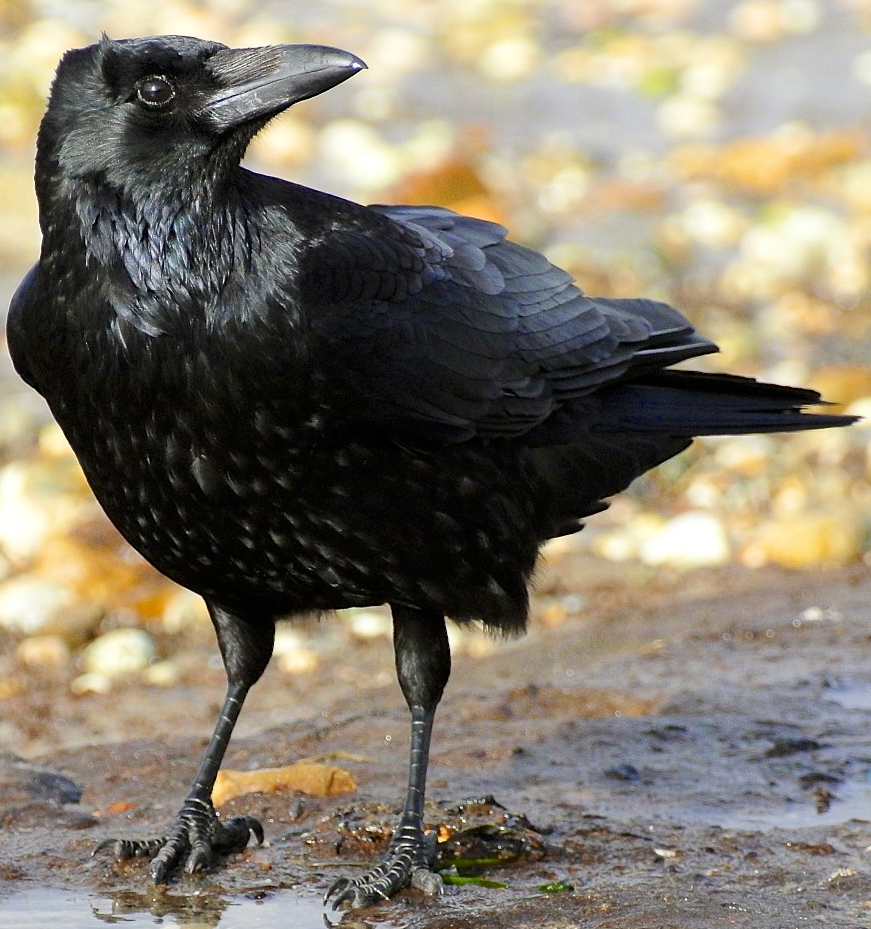 A Carrion Crow scavenging on the beach near Canford Cliffs, Poole, Dorset, England.